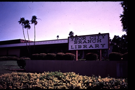 Ybor City Branch Library in the 1960s